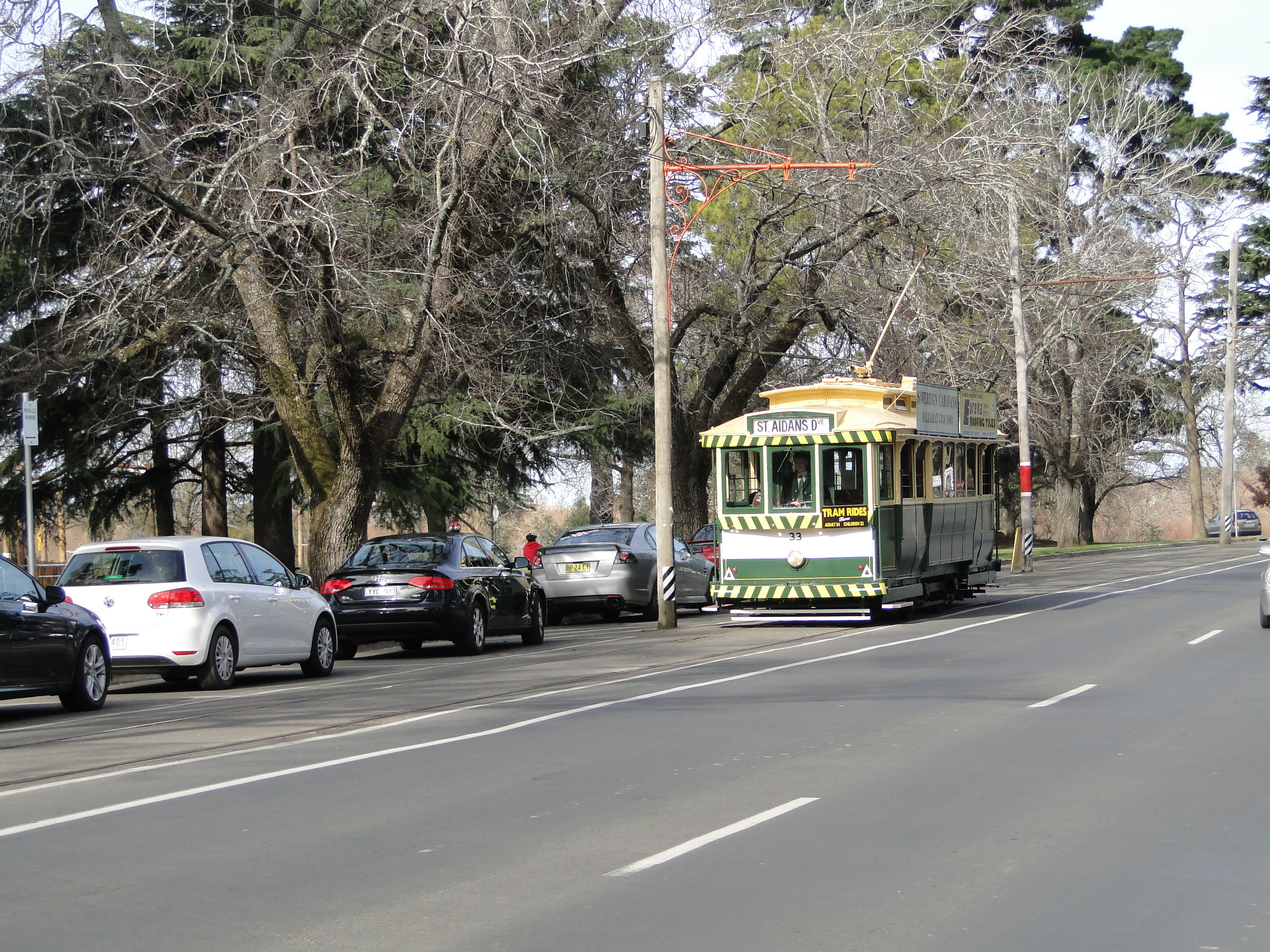 Ballarat tram No. 33, built in 1917 by Duncan and Fraser for the Hawthorn Tramway Trust, at Lake Wendouree, Ballarat, Victoria, Australia.